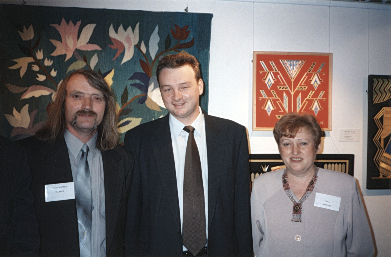 Volodymyr Harbuz (left) and Nina Sayenko (right) with Parramatta mayor David Borger (currently the NSW Minister for Roads, and Western Sydney) at the exhibition organized by the Ukrainian Artists Society of Australia (NSW) in April-May 2000 at the Parramatta Heritage Centre.